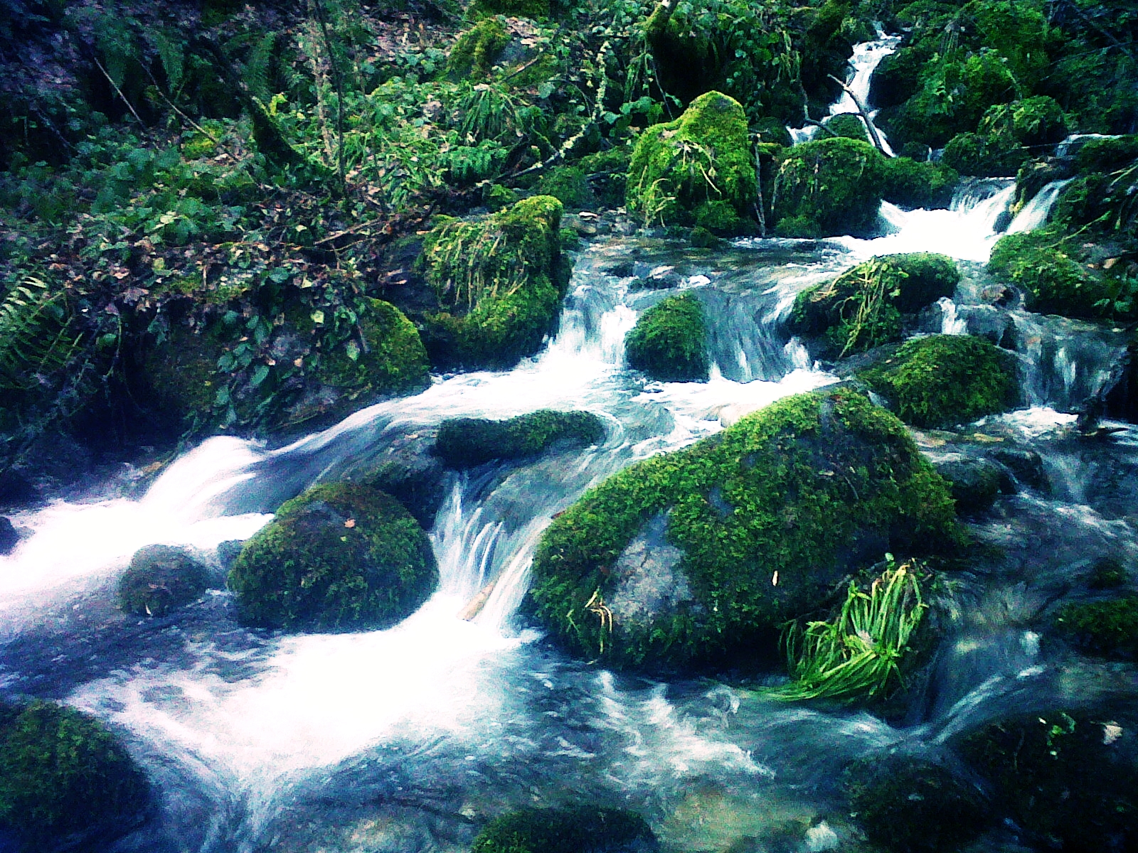 Numerosos riachuelos en los montes de Cerredo